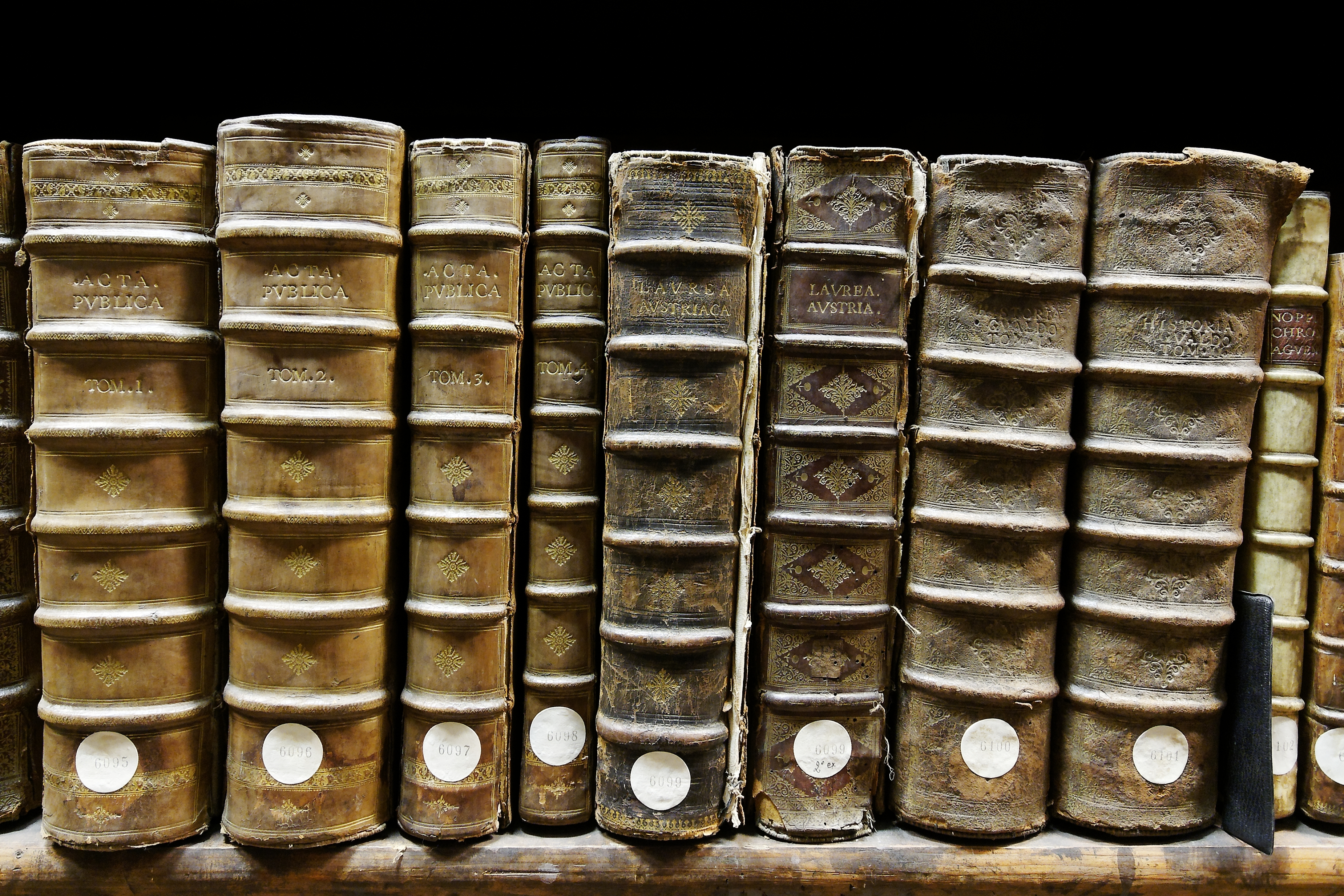 Book shelves, Bibliothèque Mazarine, Paris.